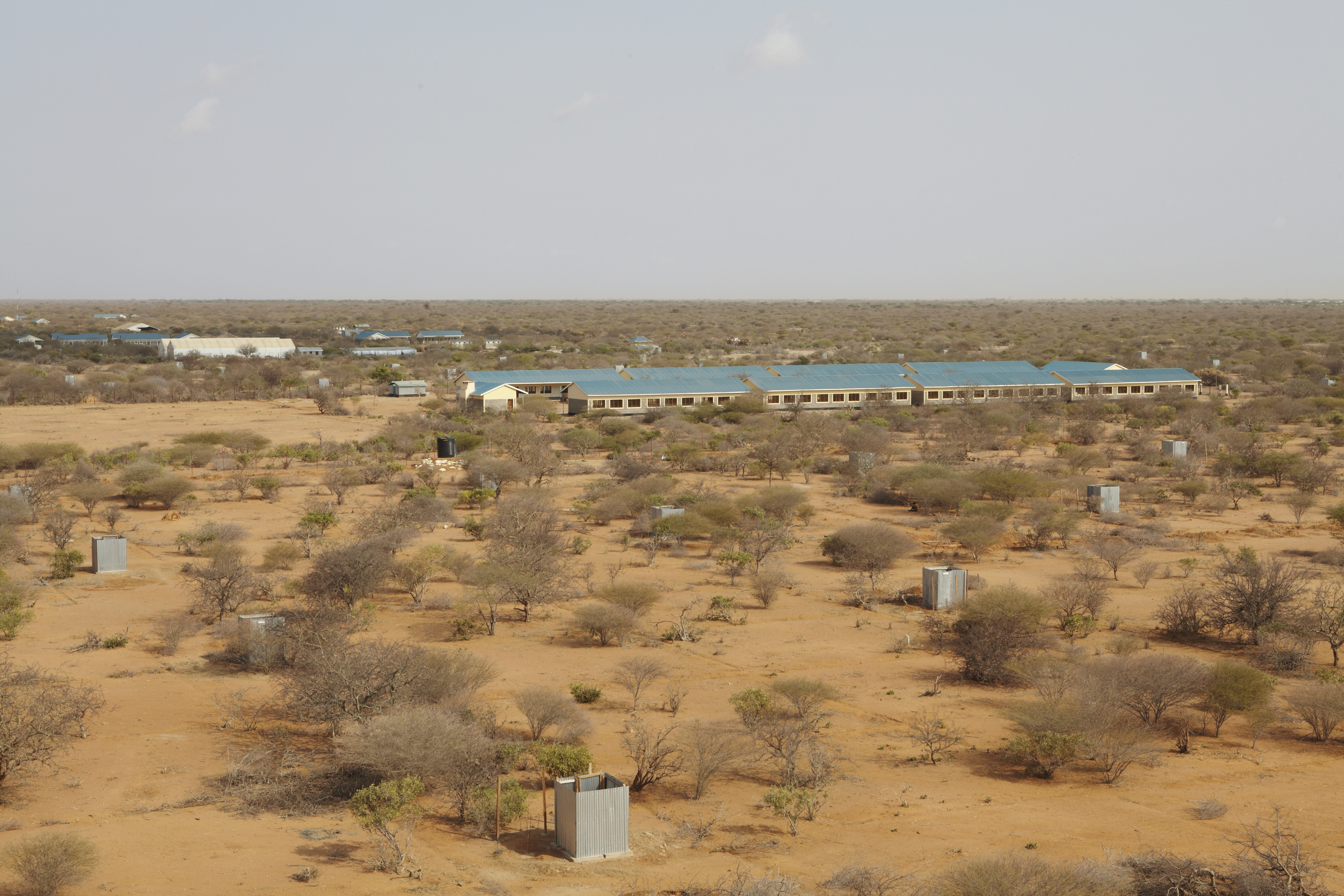 The new Ifo II camp was built to try and ease the severe overcrowding in Dadaab, where camps designed for 90,000 people now shelter over 380,000. Yet despite the influx of new arrivals, Ifo II remains empty as the Government of Kenya has refused to allow people to move in. Water systems, latrines and healthcare facilities are ready to use but are standing idle. Another planned extension known as Ifo III has also stalled. Meanwhile 60,000 new refugees are sheltering a few kilometres away and desperately need services such as these. More: oxf.am/4xK